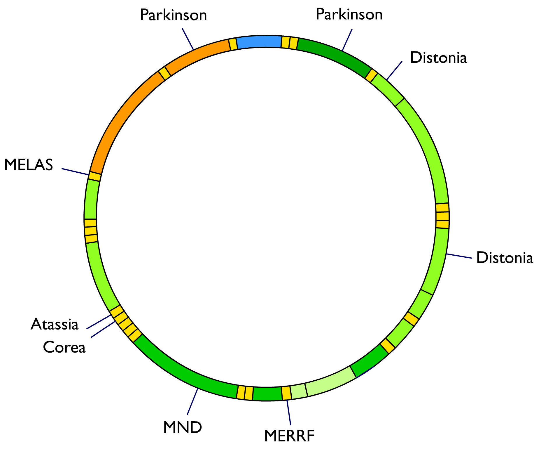 Mitochondrial diseases